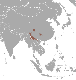 Shrew Gymnure (Neotetracus sinensis) range